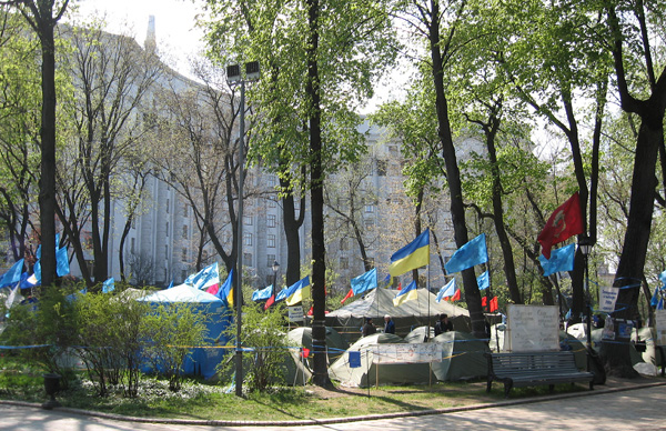 Tents of the anti-crisis coalition in Kiev